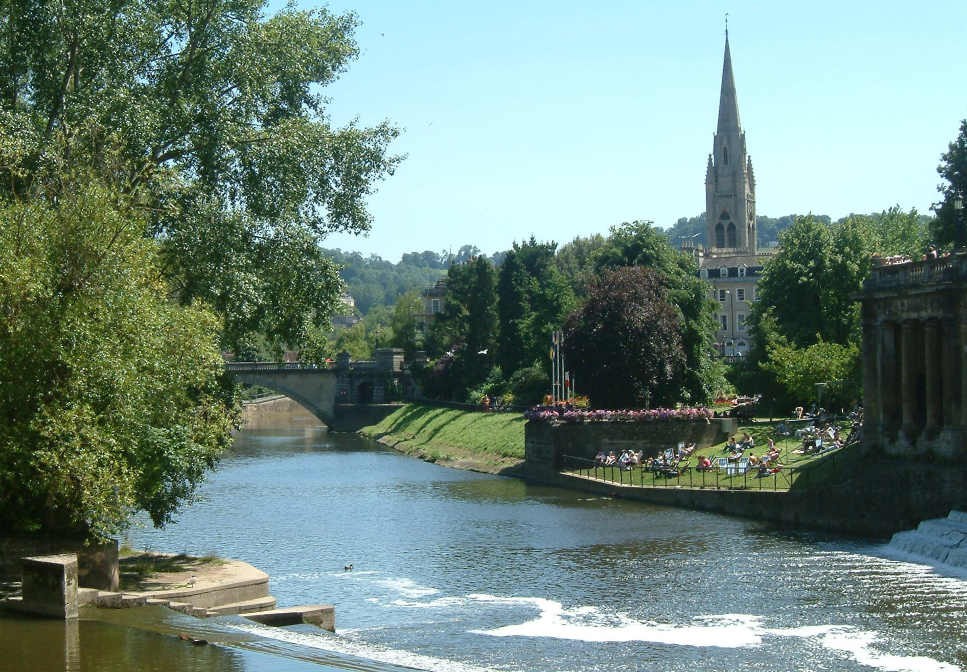 Bath, England, United-Kingdom